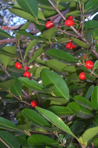 Elaeodendron australe at Yatte Yattah near Milton, Australia